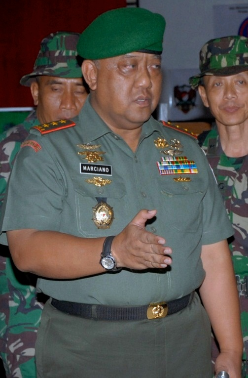 BOGOR, Indonesia - Lt. Gen. Marciano Norman, the commander for the Tentara Nasional Indonesia Training and Doctrine Command, speaks with Maj. Mario Calad, future operations officer for Exercise Garuda Shield, to discuss the combined operations process for the exercise, June 14, at the TNI Engineer Training Center of Army Education and Training Command, Pusdikzi. The Indonesian general visited multiple Garuda Shield sites to see the current status of the annual, bilateral exercise.